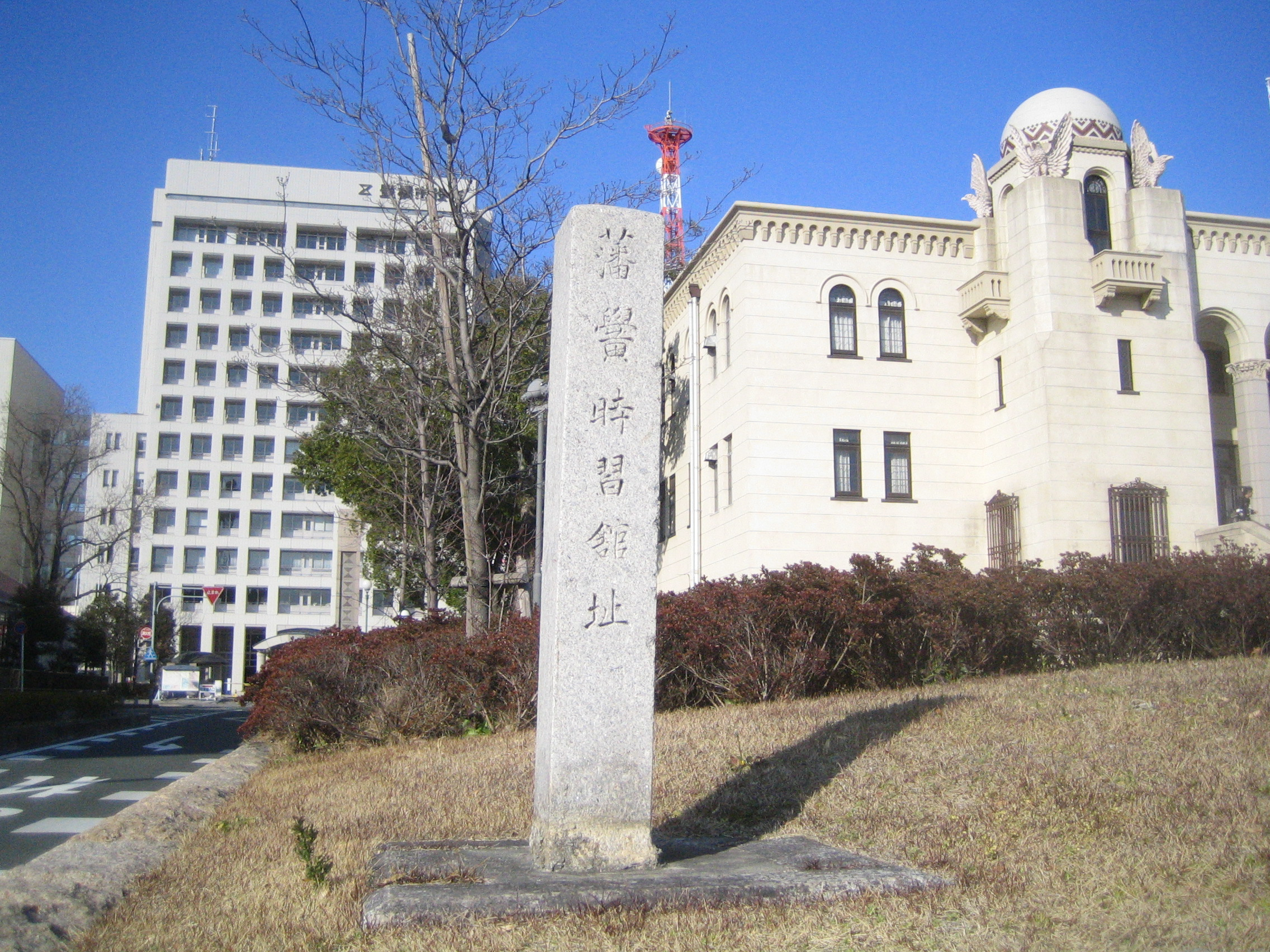 Ruins of Jishukan (時習館), located at Hacchodori, Toyohashi, Aichi, Japan